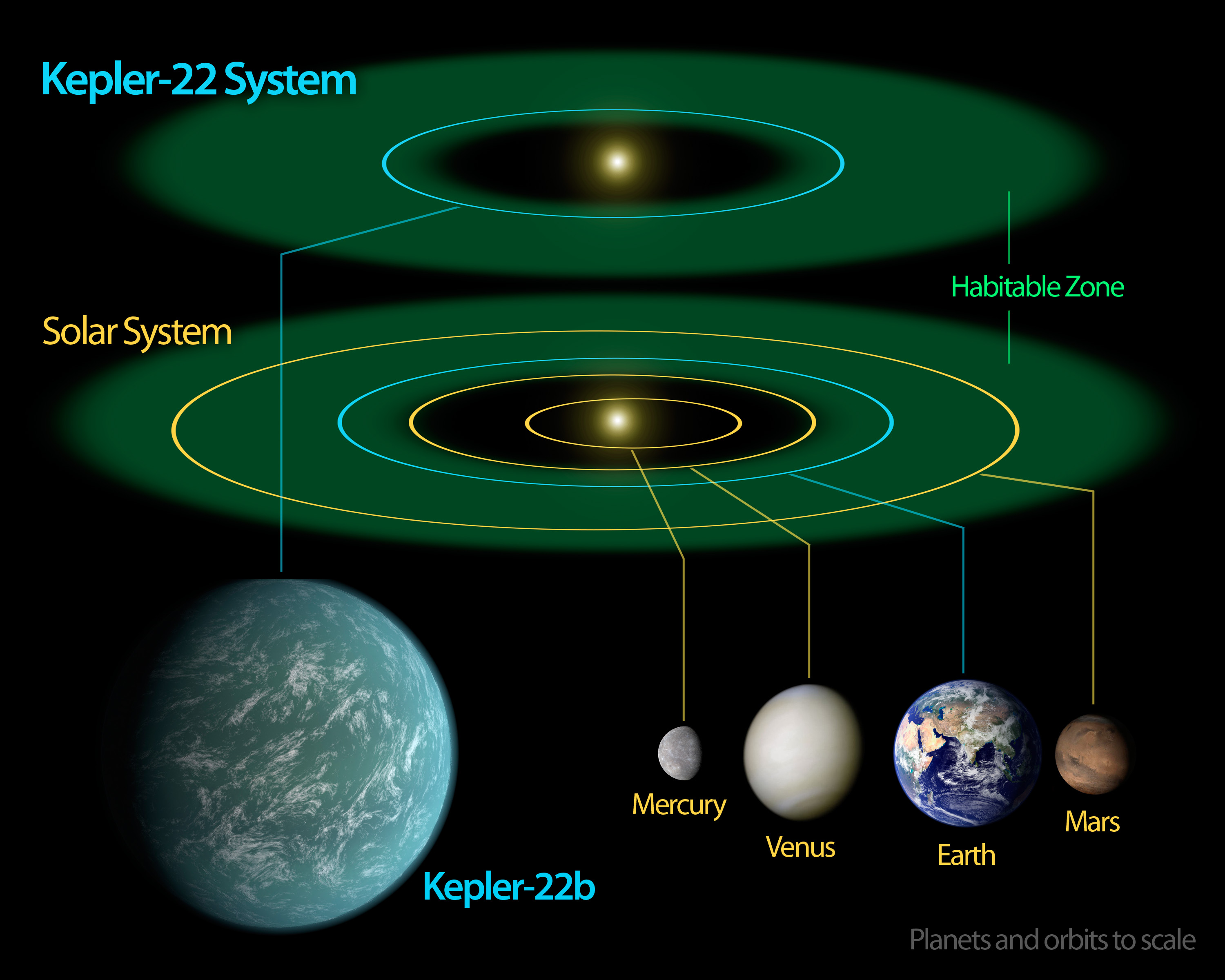 This diagram below compares our own solar system to Kepler-22. The diagram includes the habitable zone where water can exist in liquid form. Kepler-22's star is a bit smaller than our sun, so it's habitable zone is slightly closer in. The orbit of Kepler-22b around its star takes 289 days and is about 85% as large as Earth's orbit.